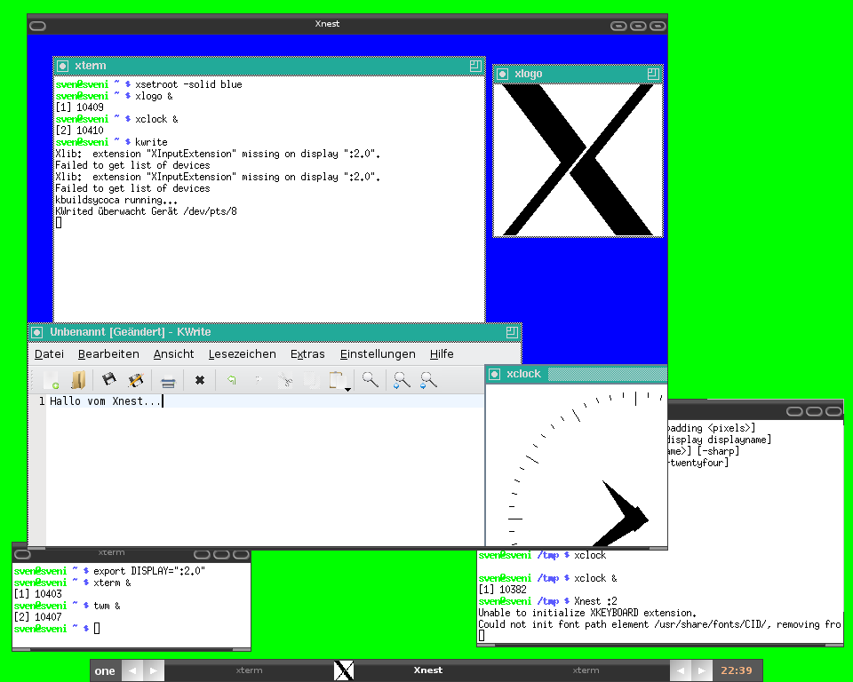 This screenshot shows: Xnest (blue background) a couple of xterms Fluxbox kwrite from KDE (3.5) twm in the Xnest The X Window System is X11R6. It's free.